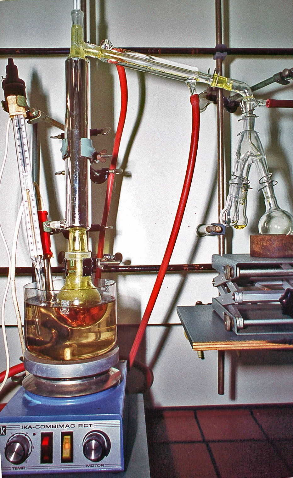 Fractional distillation in vacuo (Orange peel oil)